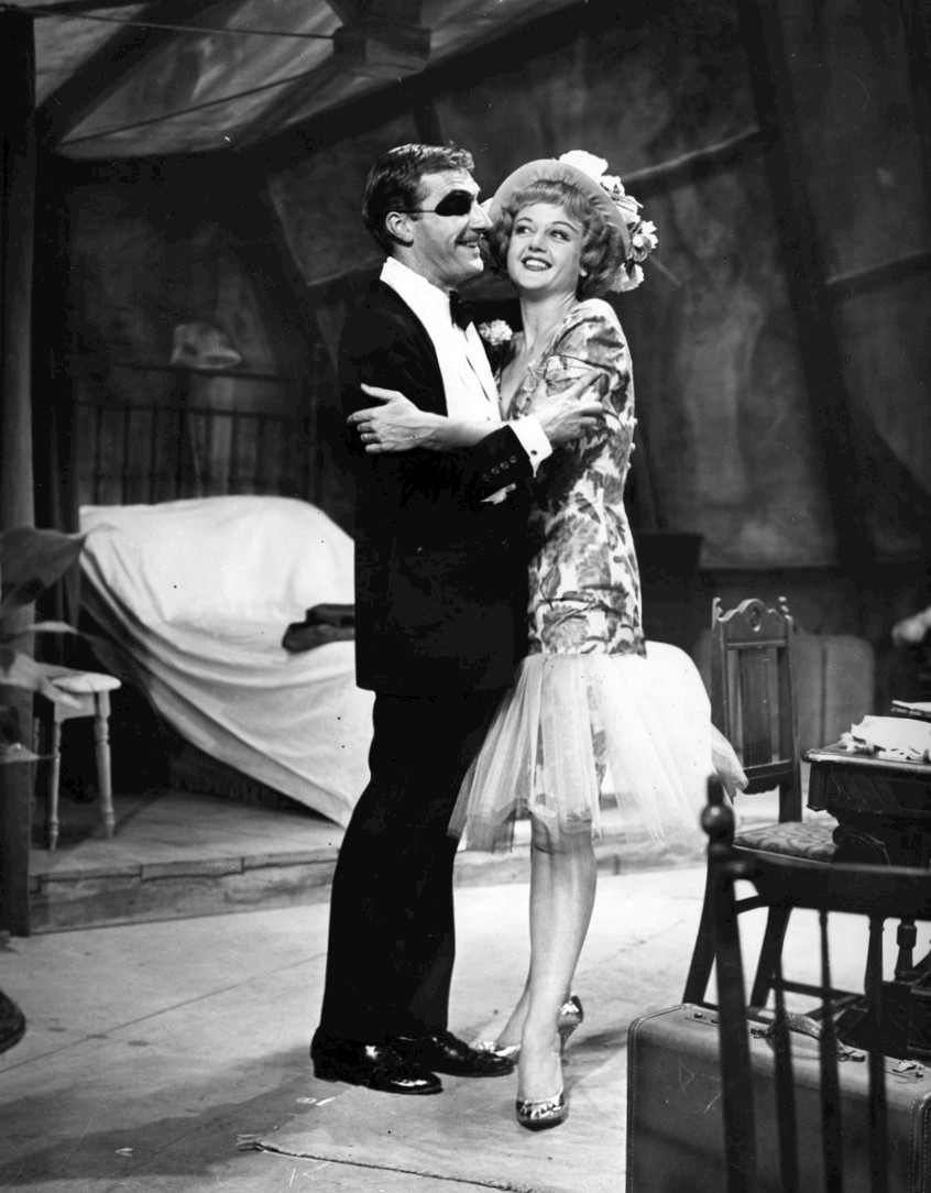 Photo of Nigel Davenport as Peter and Angela Lansbury as Helen in the Broadway play A Taste of Honey.